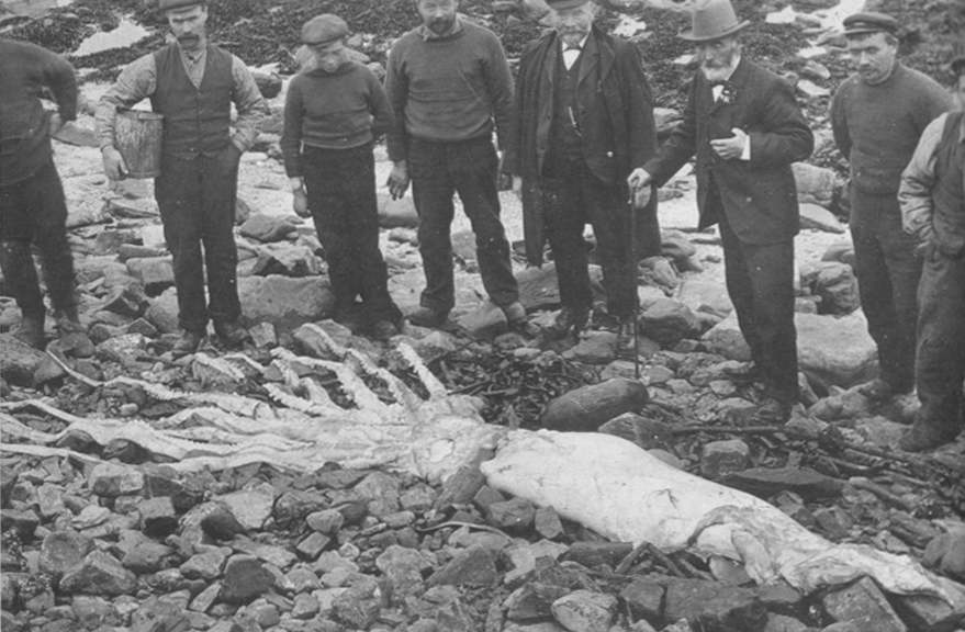 Giant squid, 1920 Source: Bright, M. 1989. There are Giants in the Sea. Robson Books, London.